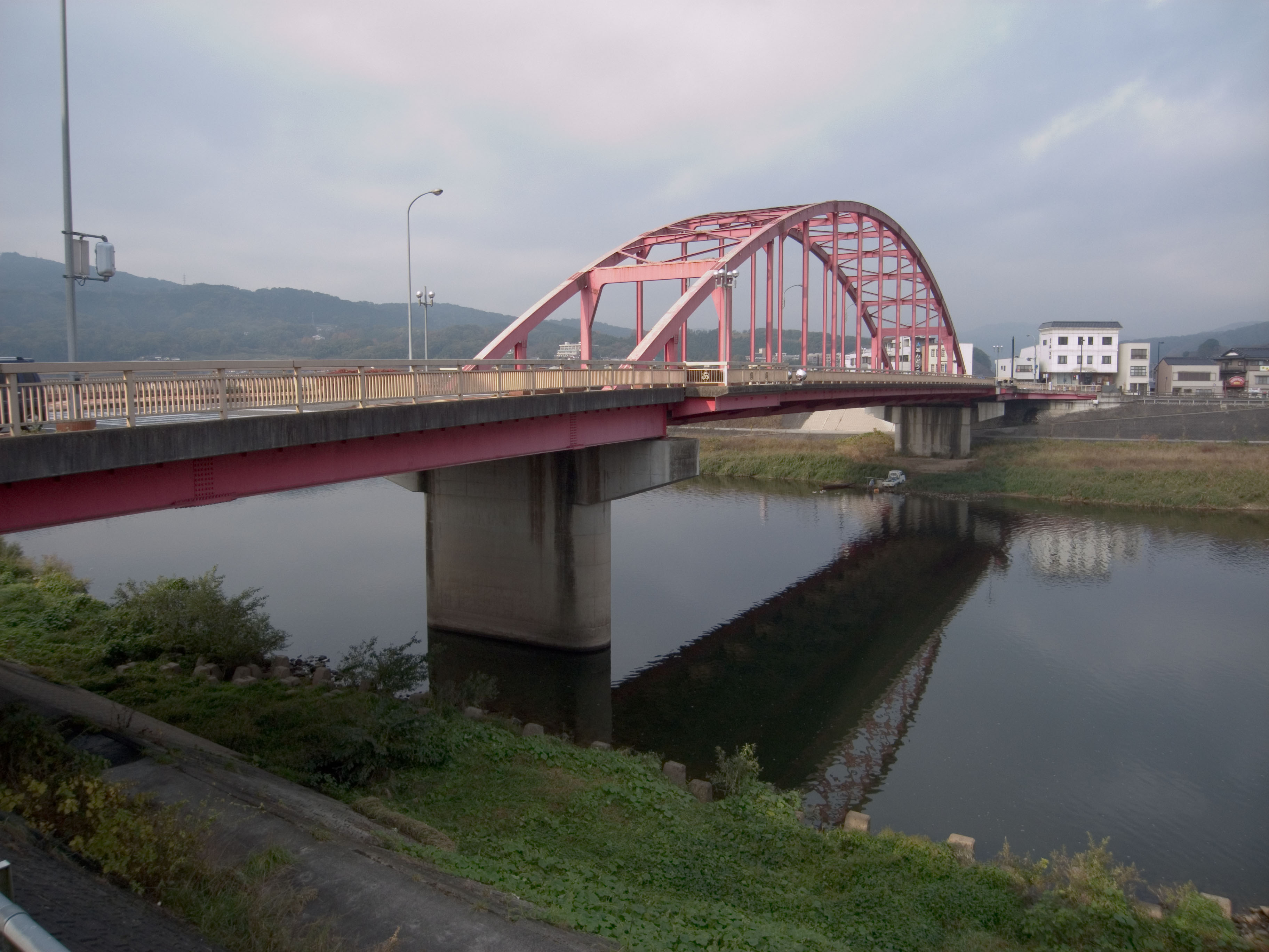 Tomoe bridge, Miyoshi, Hiroshima, Japan